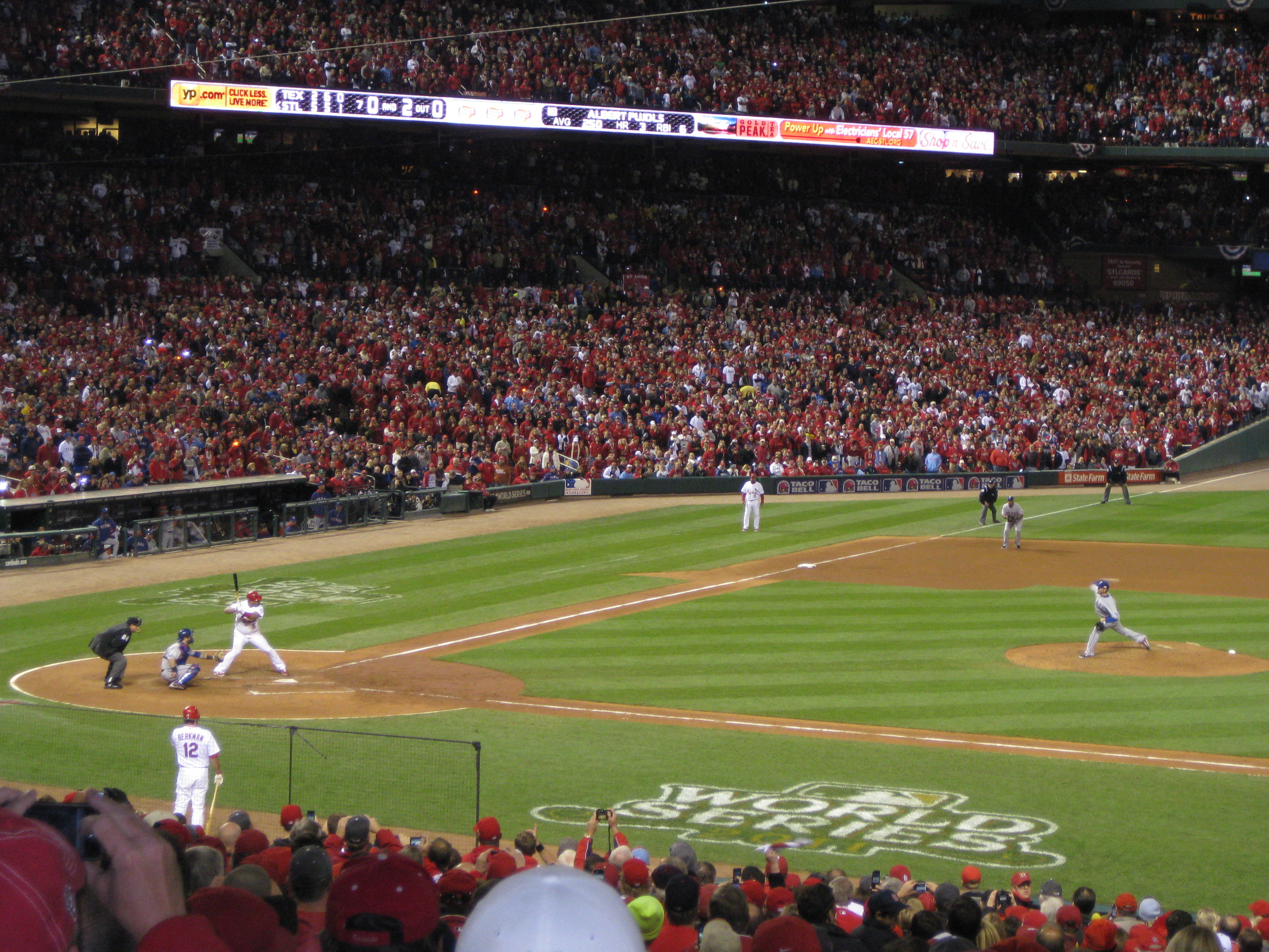 Game 7 of the 2011 World Series. Pujols takes his last at-bat as a Cardinal in the bottom of the 7th inning against Texas Rangers relief pitcher Mike Adams.